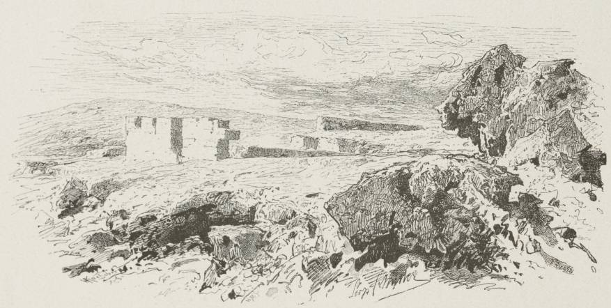 Ruins of the City Wall of Alexandria.A ruined wall in the desert.